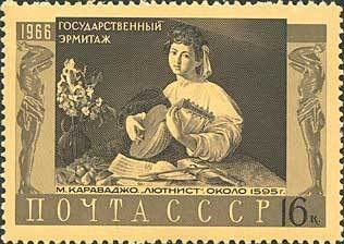 Stamp of USSR: “The Lute Player,” by Michelangelo de Caravaggio. Issue: Treasures from the Hermitage, Leningrad